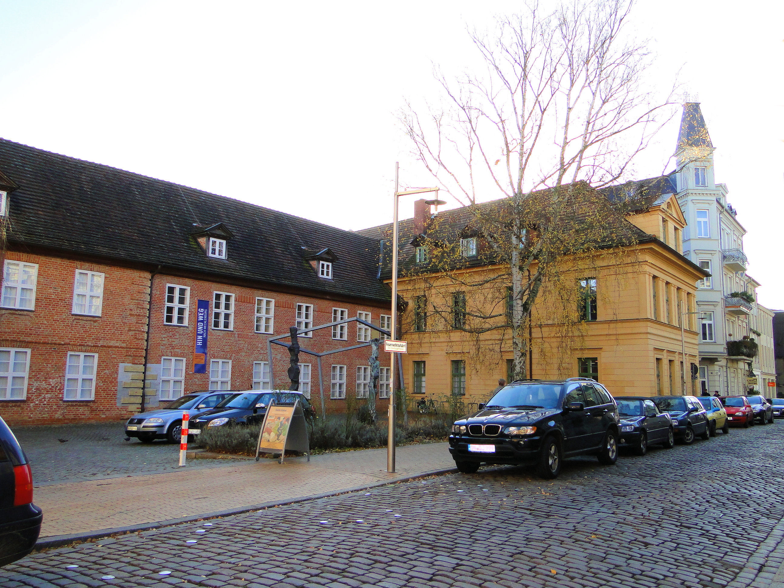 Schleswig-Holstein-Haus in the Puschkinstraße in Schwerin, Mecklenburg-Vorpommern, Germany